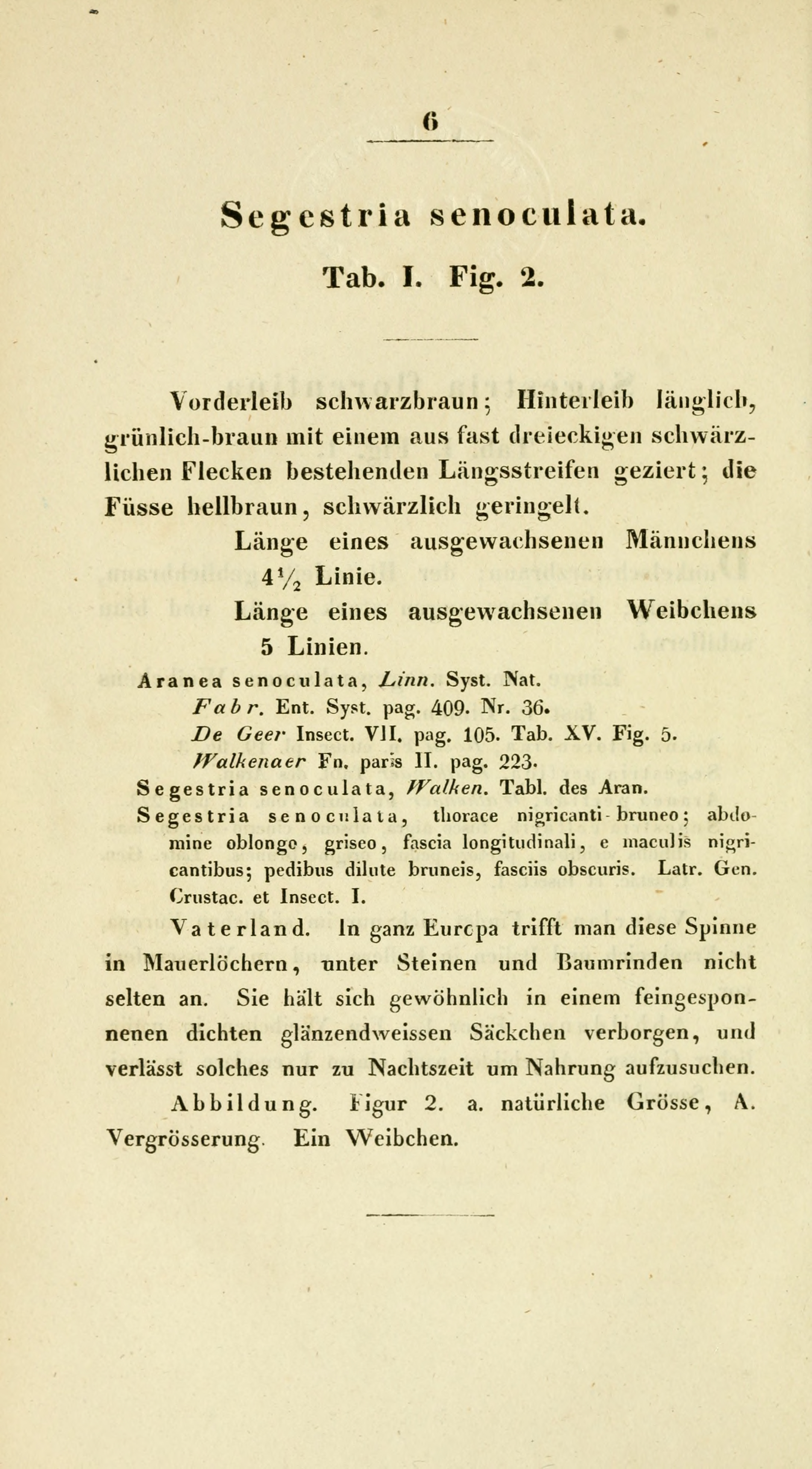 Carl Wilhelm Hahn: Die Arachniden. Erster Band. C. H. Zeh´sche Buchhandlung, Nürnberg 1831-1833, page 6